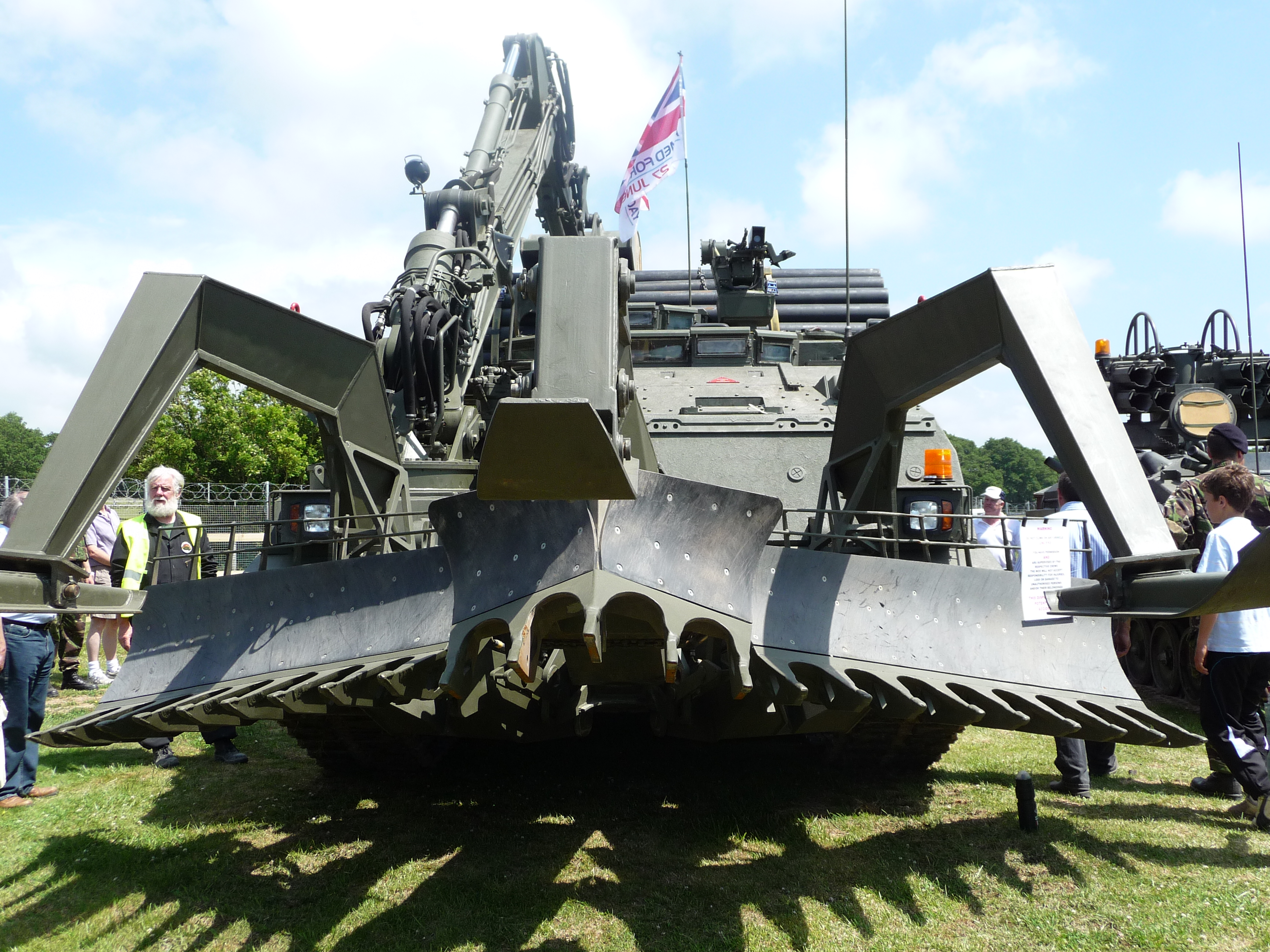 Trojan AVRE at the Tankfest 2009.